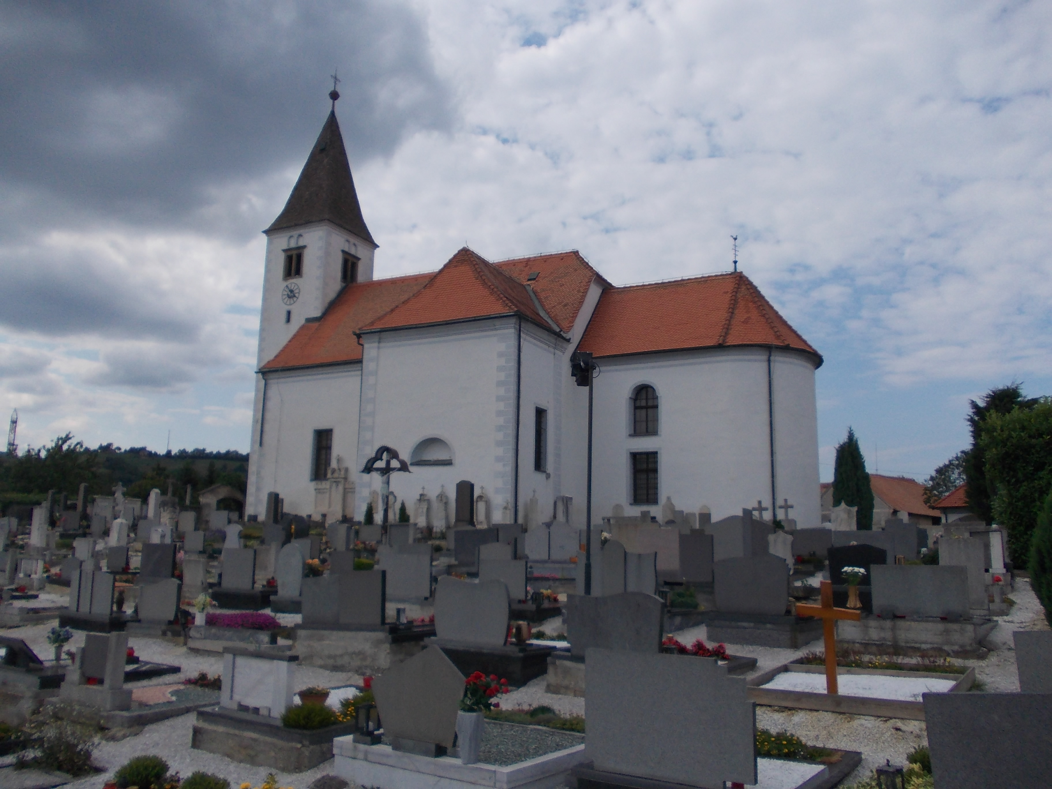 Holy Trinity Church, Zgornja Polskava